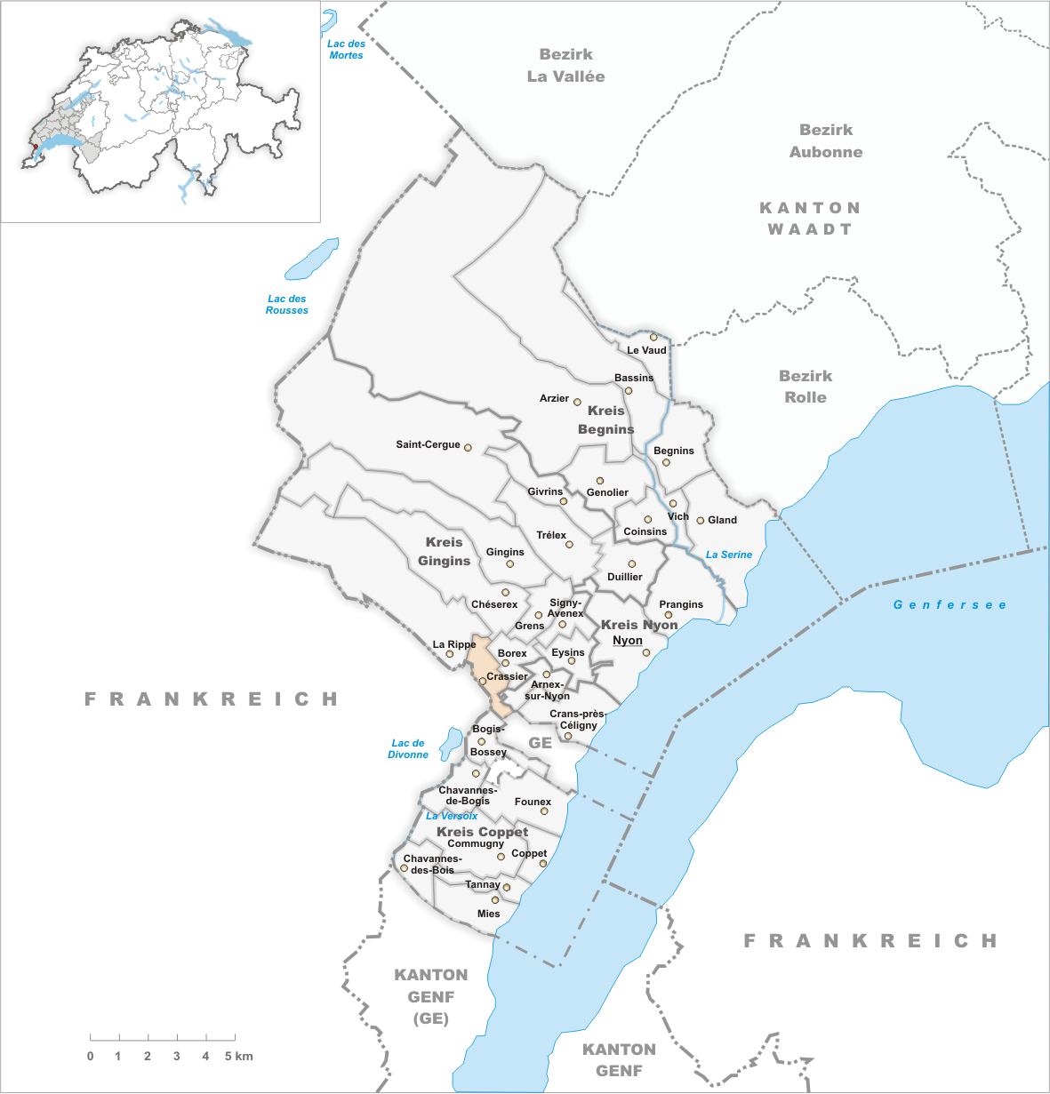 Municipality Crassier